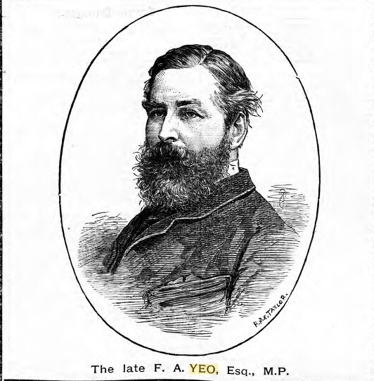 Frank Ash Yeo MP